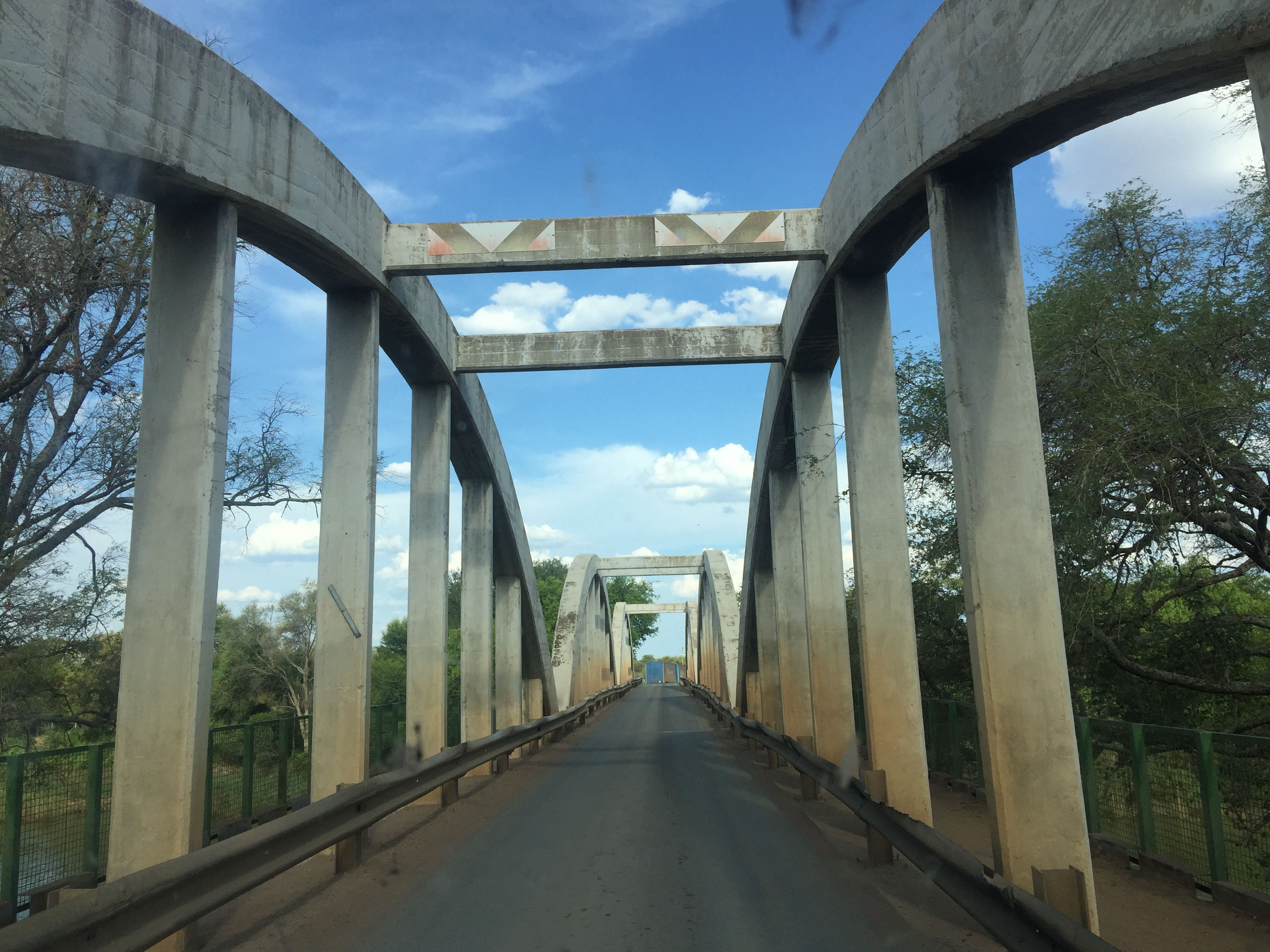 This is an image with the theme "Africa on the Move or Transport" from: Botswana